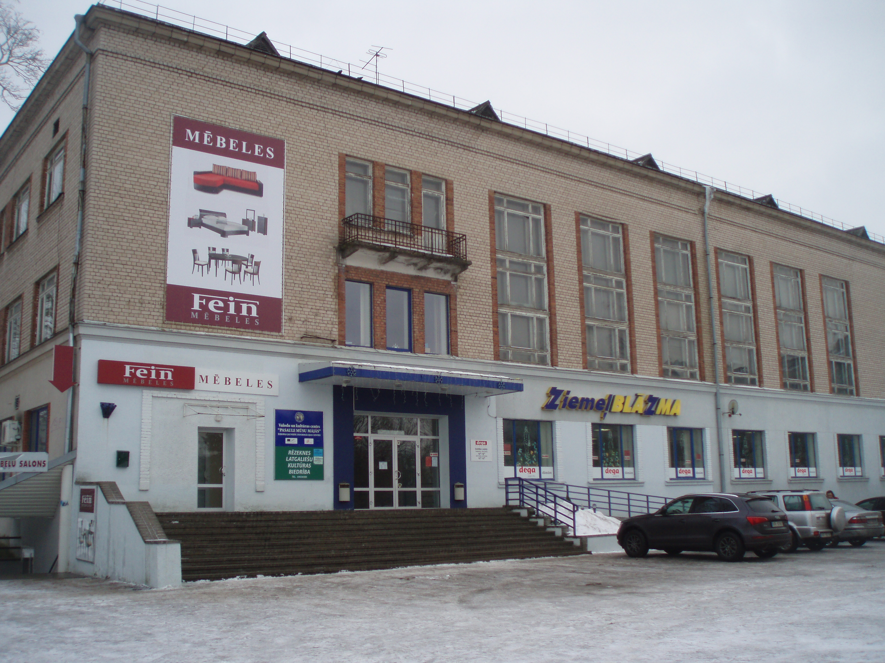 Culture and recreation center "Ziemeļblāzma".